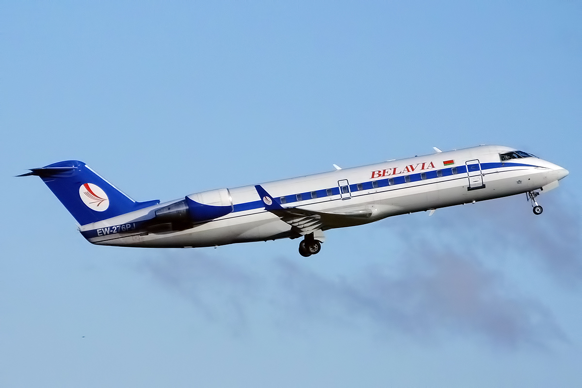 Belavia, EW-276PJ, Canadair CRJ-200ER